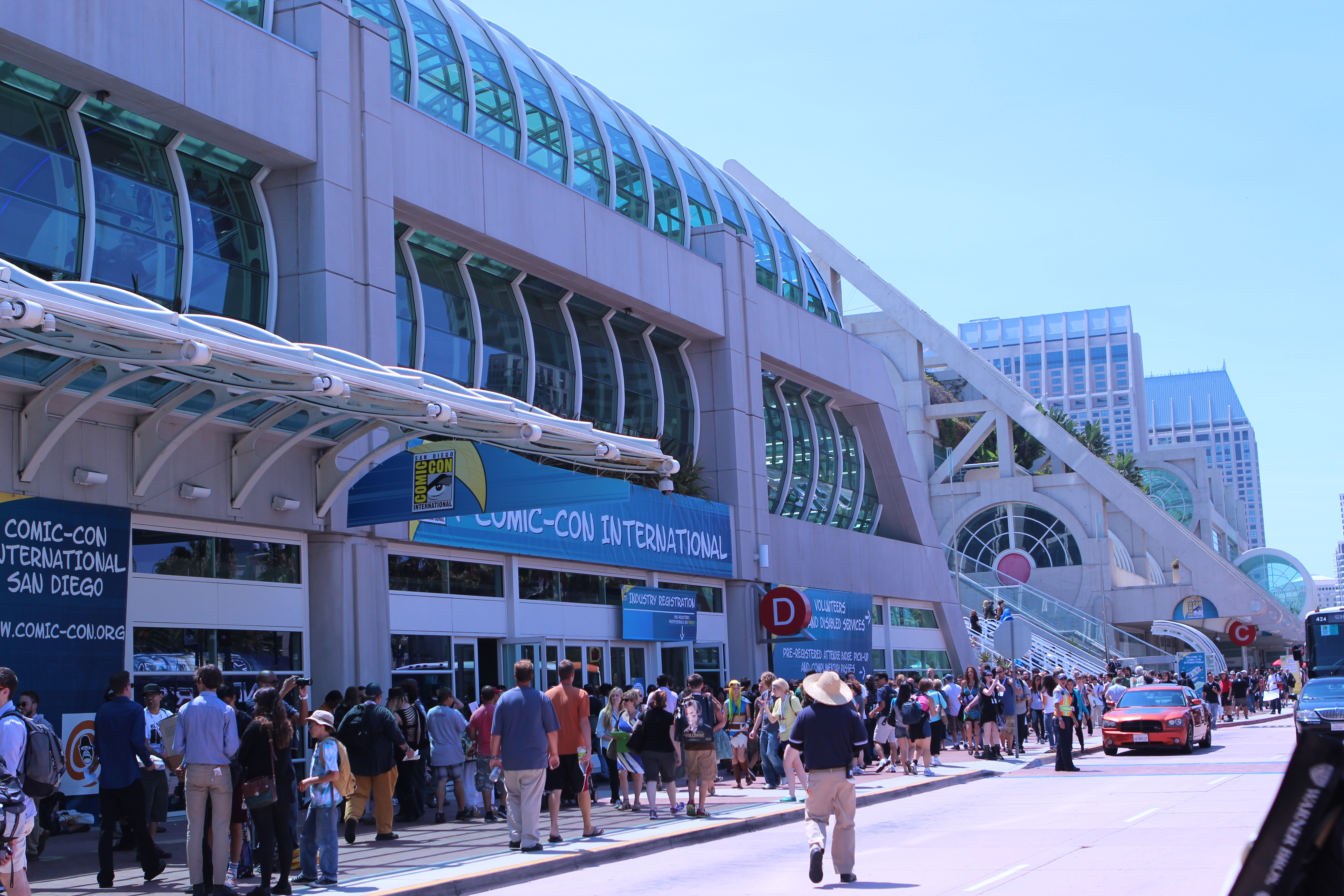 Going back in...